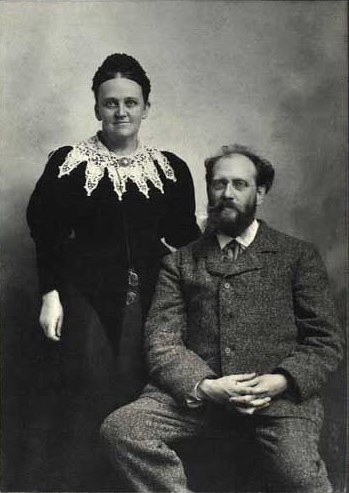 Carl Julius Aller (1845-1926), Danish publisher, and wife Laura Aller